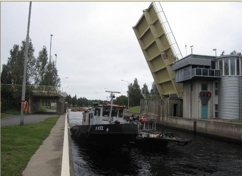 Joensuu canal on Pielisjoki River in Joensuu, Finland